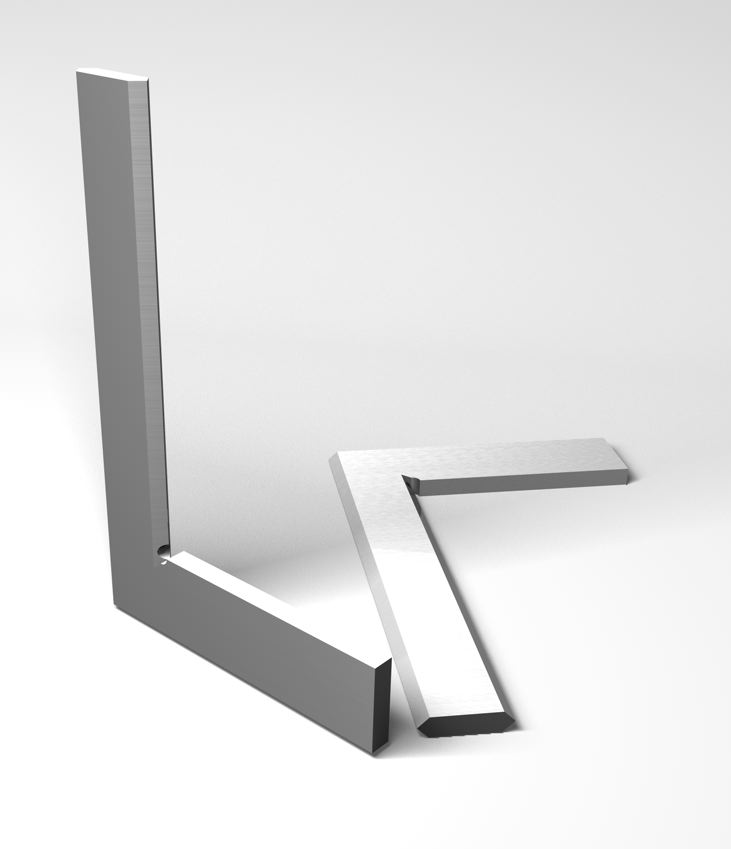 precision try square